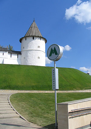 Entrance of the "Kremlyovskaya" station of Kazan Metro with the Metro sign